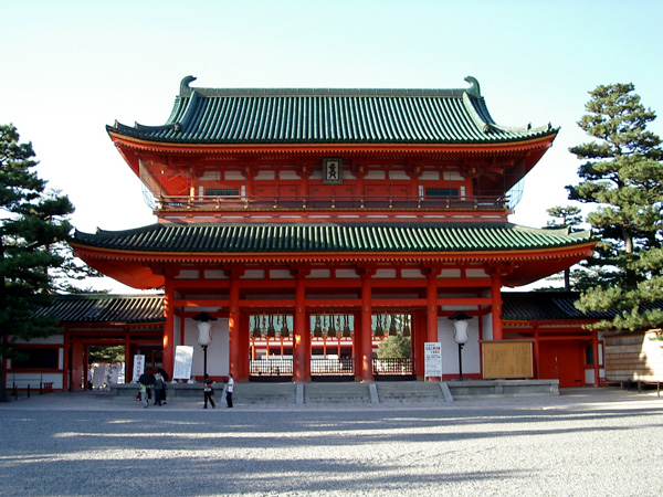 Gate at Heian jungu, a shinto shrine in Kyoto